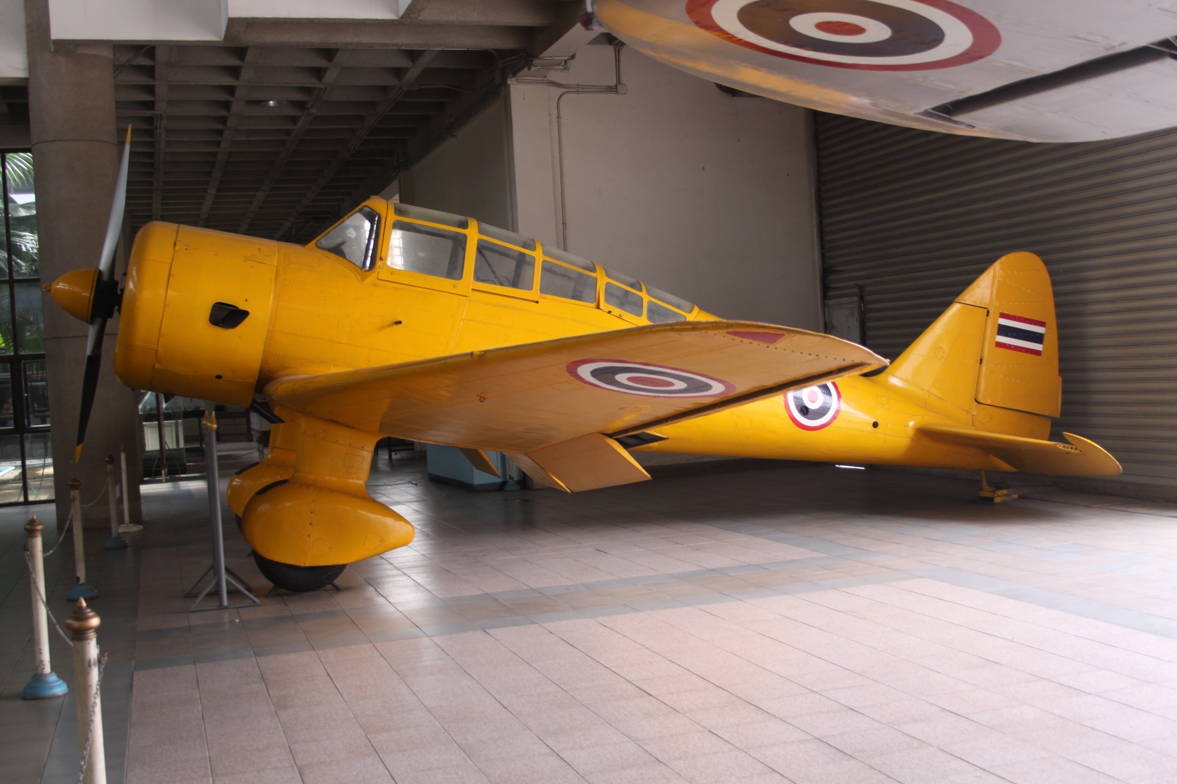 At Don Mueang International Airport